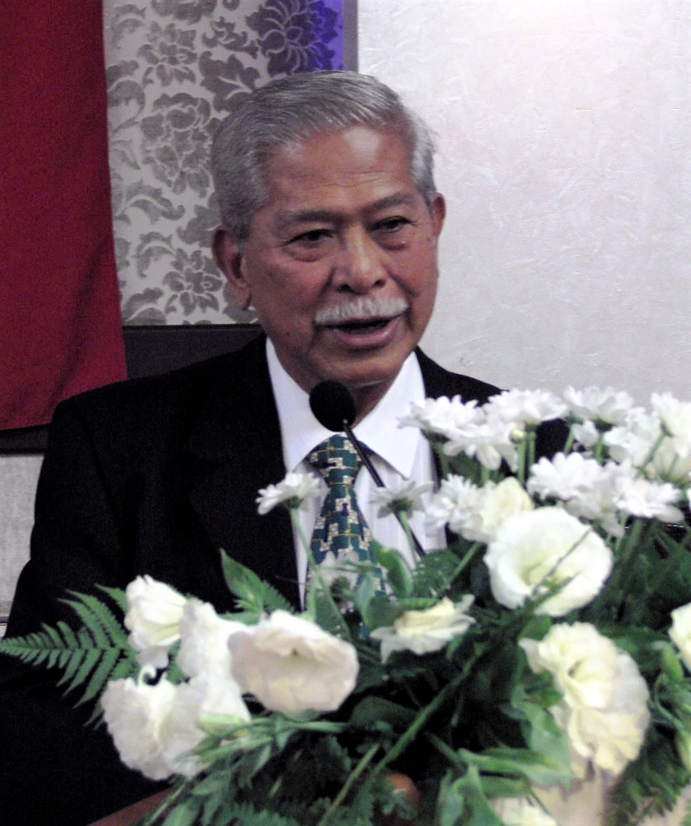 Florencio Campomanes, World Junior Chess Championship, Gaziantep 2008